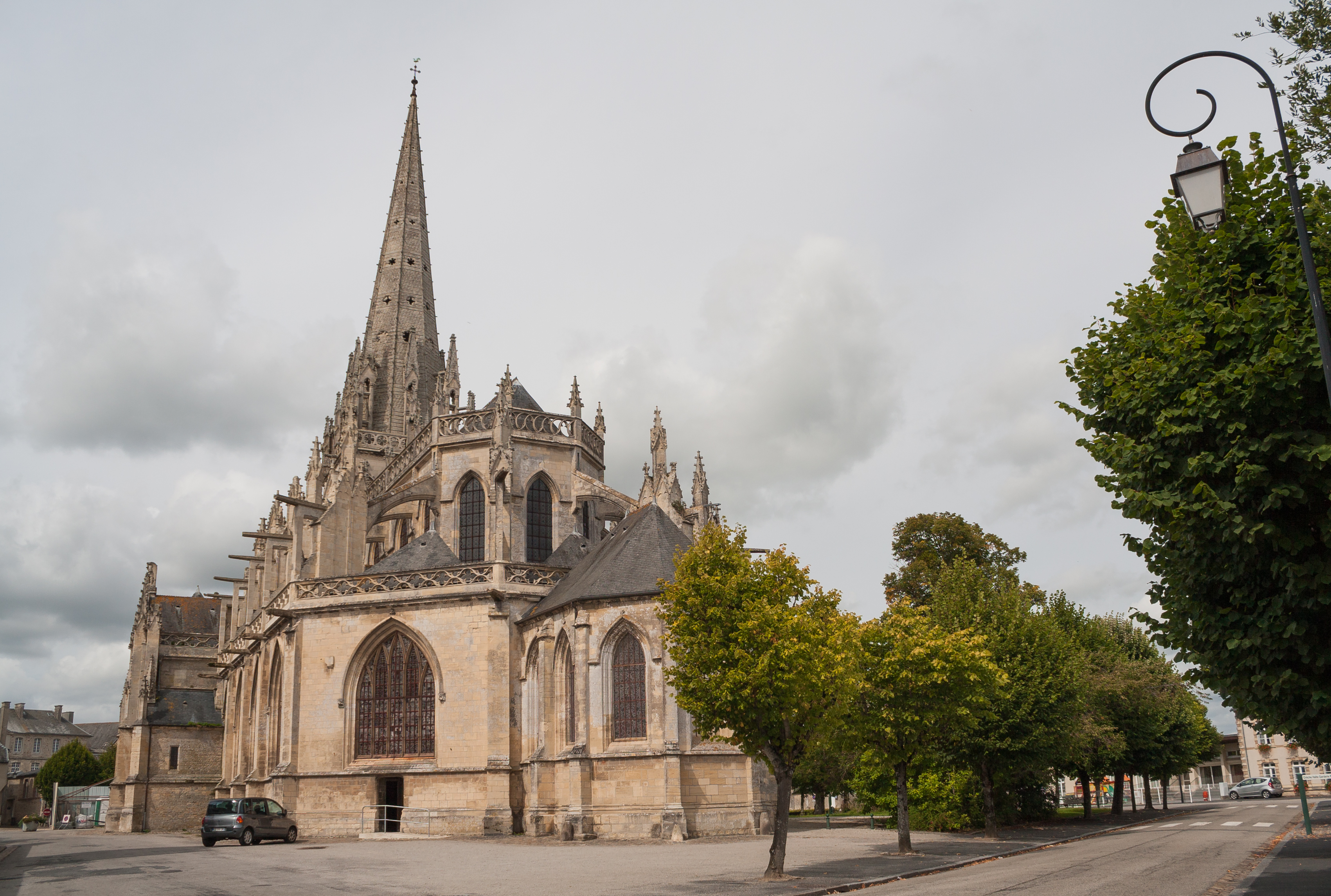 South-east view of the church from the Avenue du Vieux Rempart.